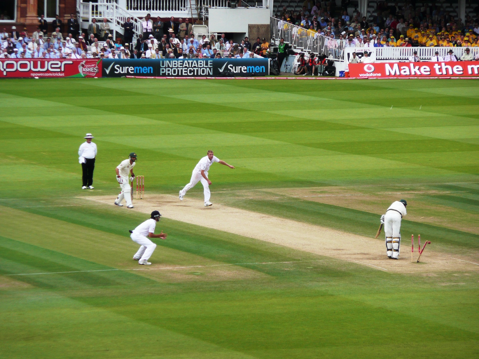 Andrew Flintoff takes his 5th wicket of the match, knocking out Peter Siddle's middle stump to help England beat Australia in the 2nd 2009 Ashes Test